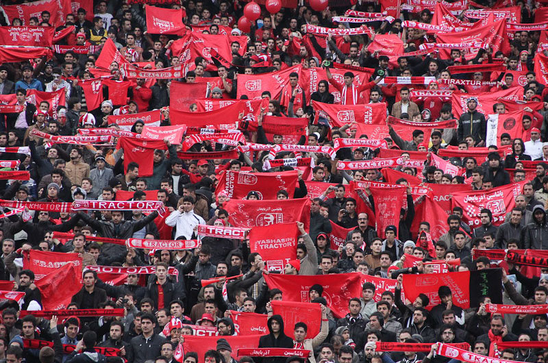 عشقیم تیراختور